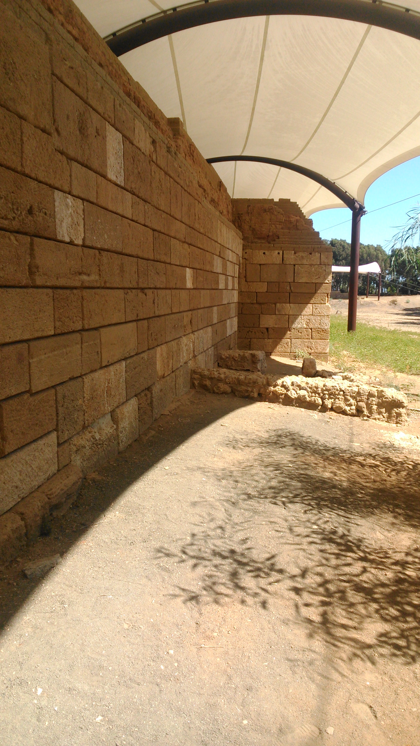 Greek Walls of Timoleon in Gela, Sicily (IV c. BC)